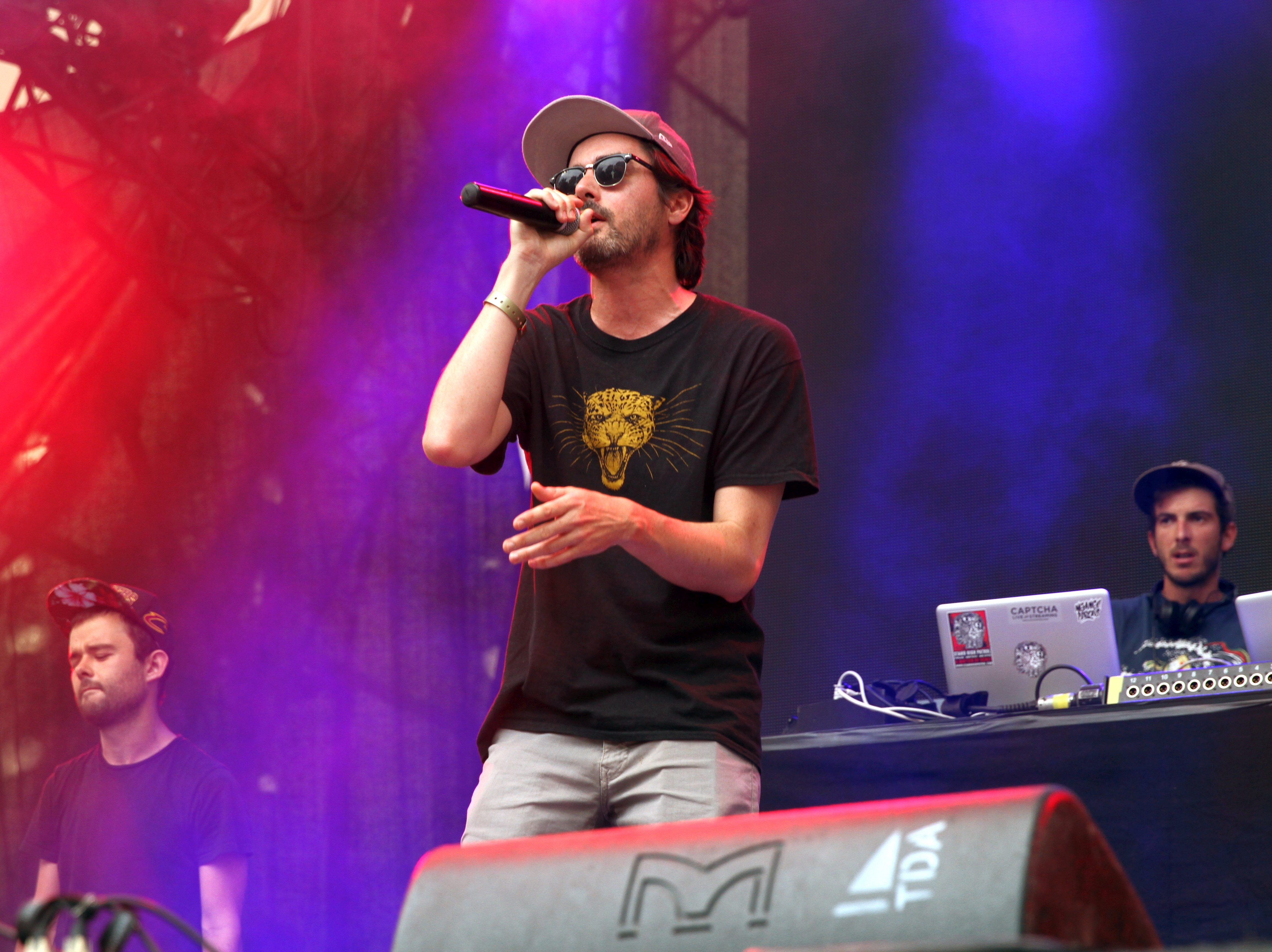 Stand High Patrol performing on green stage at Summerjam Festival 2015 in Cologne